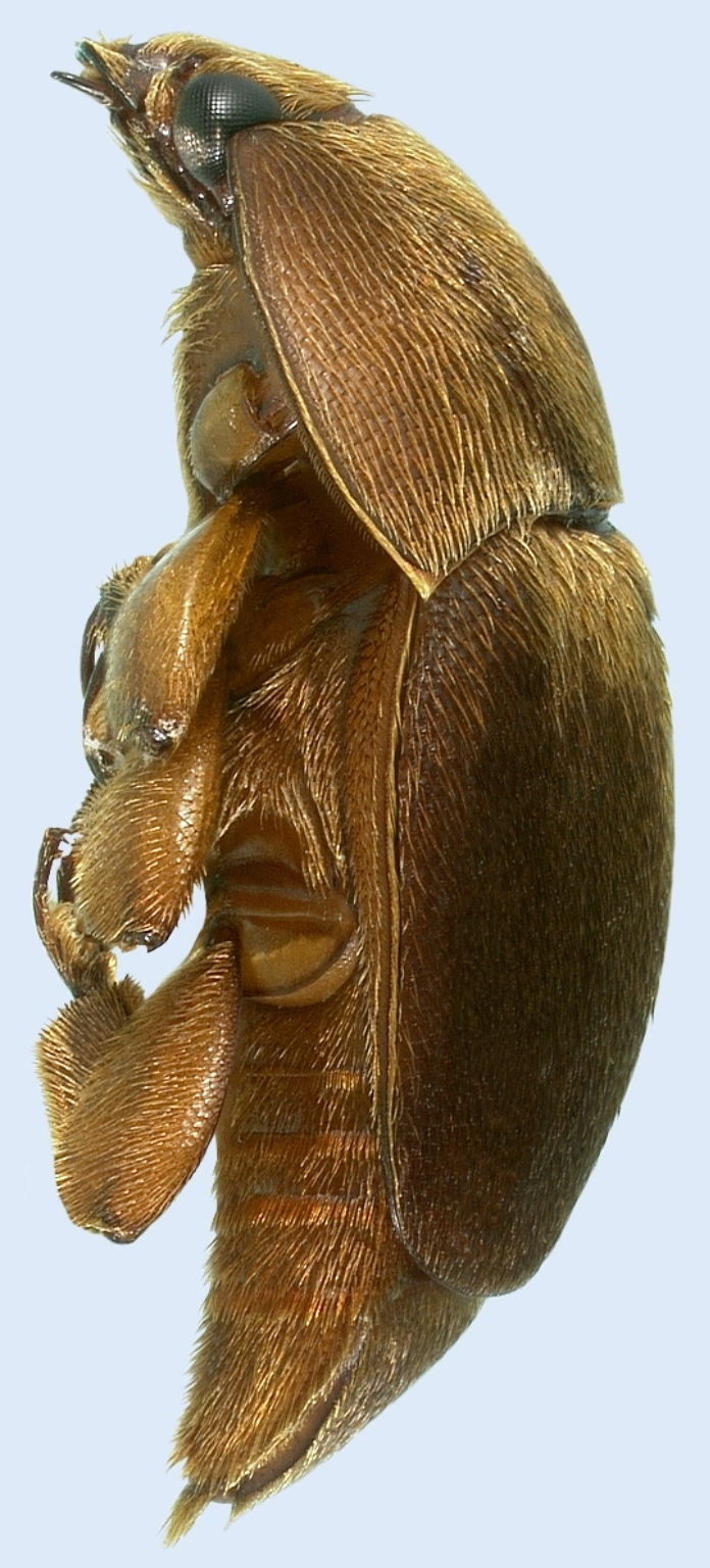 Aethina tumida Common Name: small hive beetle Photographer: Natasha Wright, Florida Department of Agriculture and Consumer Services, United States Contact: Michael C. Thomas, Florida Department of Agriculture and Consumer Services Descriptor: Adult(s) Description: Collection information: Florida: St. Lucie Co., Ft. Pierce; 5-Jun-98 Image taken in: FDACS-DPI, Gainesville, Florida, United States